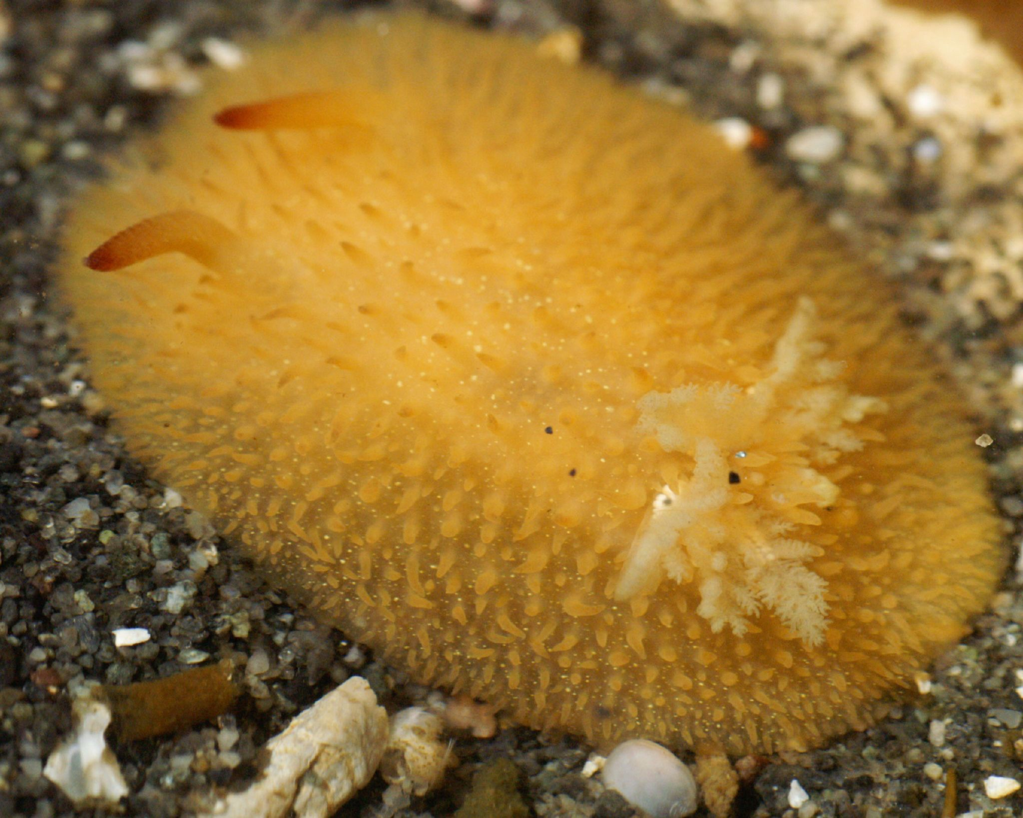 Acanthodoris lutea. Photographed at Lincoln Park in West Seattle, Washington, USA.